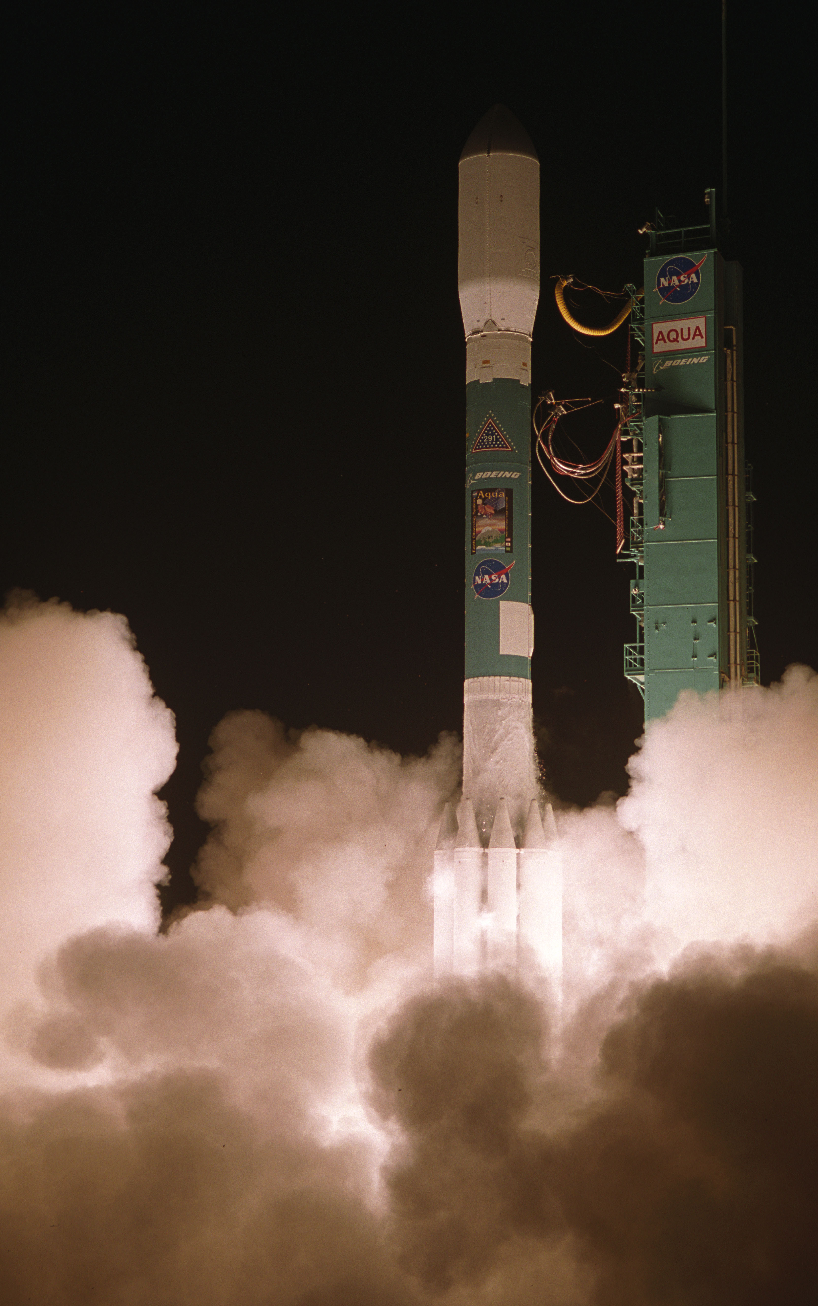 NASA's Earth observing satellite, Aqua, successfully launched at 2:55 a.m. PDT on May 4, 2002. Aqua is dedicated to advancing our understanding of Earth's water cycle and our environment. Launching the Aqua spacecraft marks a major milestone in support of NASA's mission to help us better understand and protect our planet. The Aqua spacecraft lifted off from the Western Test Range of Vandenberg Air Force Base, Calif., aboard a Delta II rocket at 2:55 a.m. PDT. Spacecraft separation occurred at 3:54 a.m. PDT. inserting Aqua into a 438-mile (705-kilometer) orbit.